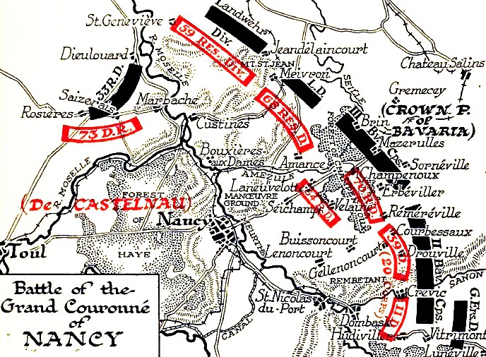 Map, Grand Couronné 1914